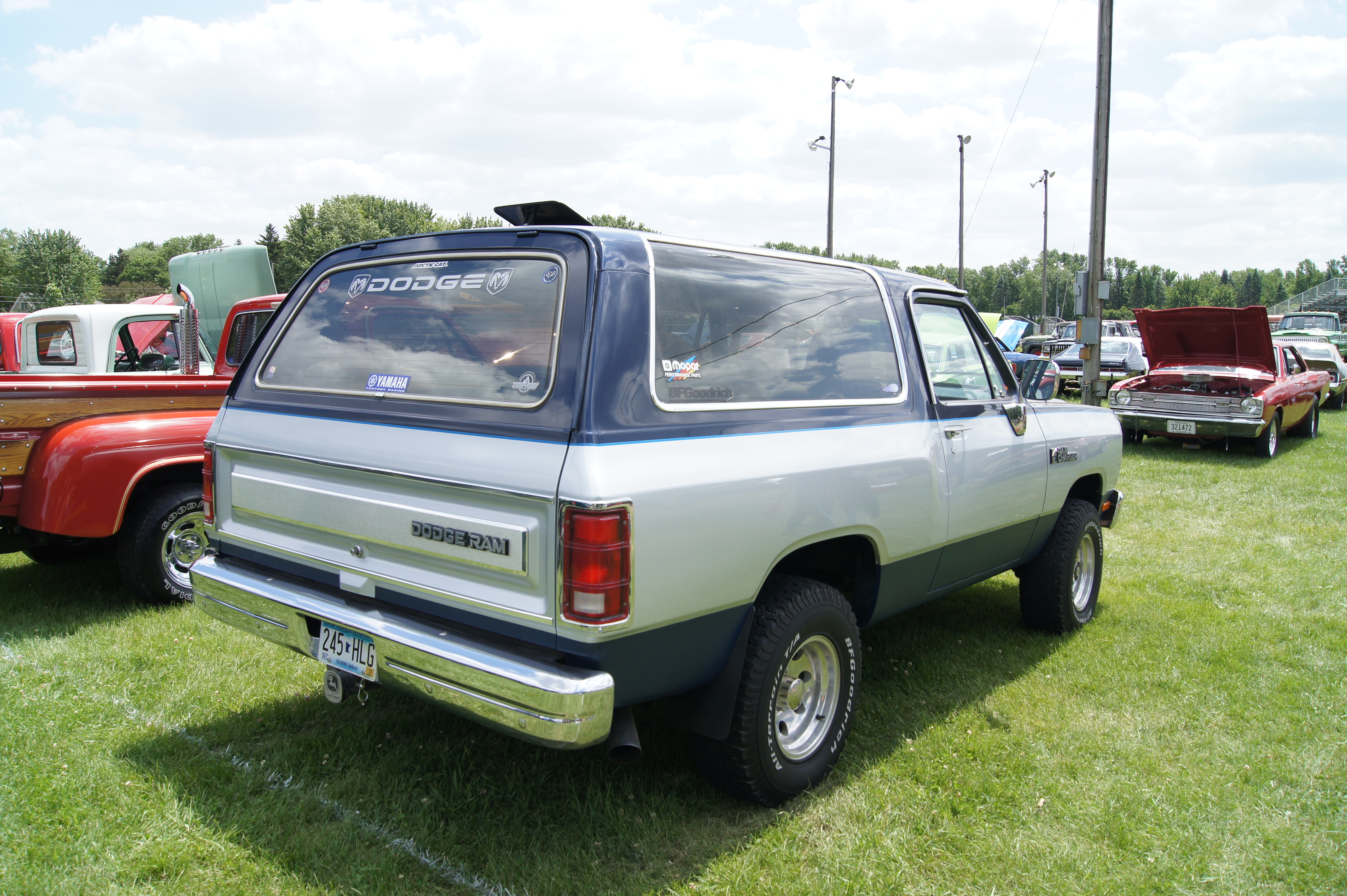 28th Annual Midwest Mopars in the Park June 2, 2012